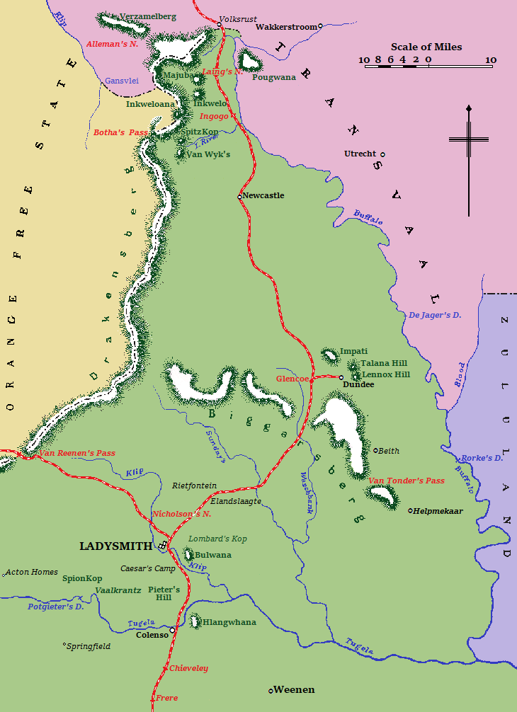 Map of the North Natal war theatre during the Second Anglo-Boer War. Colony of Natal Hills and mountains Orange Free State Transvaal (or South African Republic) Zululand Indicated in black are the names of territories, towns and hamlets: TRANSVAAL, ORANGE FREE STATE, ZULULAND, (NATAL COLONY on green background), Volksrust, Wakkerstroom, Utrecht, Newcastle, Dundee, Beith, Helpmekaar[1], Rietfontein, Elandslaagte[2], LADYSMITH, Caesar's Camp, Acton Homes, Colenso, Springfield and Weenen. In red are passes, railway routes, railway junctions and halts: Alleman's Neck, Laing's Neck, Ingogo, Glencoe railway junction, Van Reenen's Pass (railway line ended at Harrismith), Van Tonder's Pass, Nicholson's Neck, Chieveley and Frere. In blue are rivers and drifts (i.e. fords): Klip River (a, a southern tributary of the Vaal River, and border between Orange Free State and Transvaal, i.e. South African Republic), Gansvlei River, Buffalo River, Ingogo River near Ingogo, Blood River[3], De Jager's Drift and Rorke's Drift[4] in Buffalo River, the Waschbank, Sunday's and Klip River (b), all tributaries of the Tugela, and Potgieter's Drift in the Tugela. In dark green are mountains and hills: Verzamelberg, Pougwana (also Pegwani), Majuba, Inkwelo, Inkweloana, Spitz Kop, Van Wyk's Kop, Impati Hill, Talana Hill, Lenox Hill, the Biggarsberg and Drakensberg, Lombard's Kop, Bulwana Hill, Spionkop, Vaalkrantz, Pieter's Hill and Hlanghwane Hill.